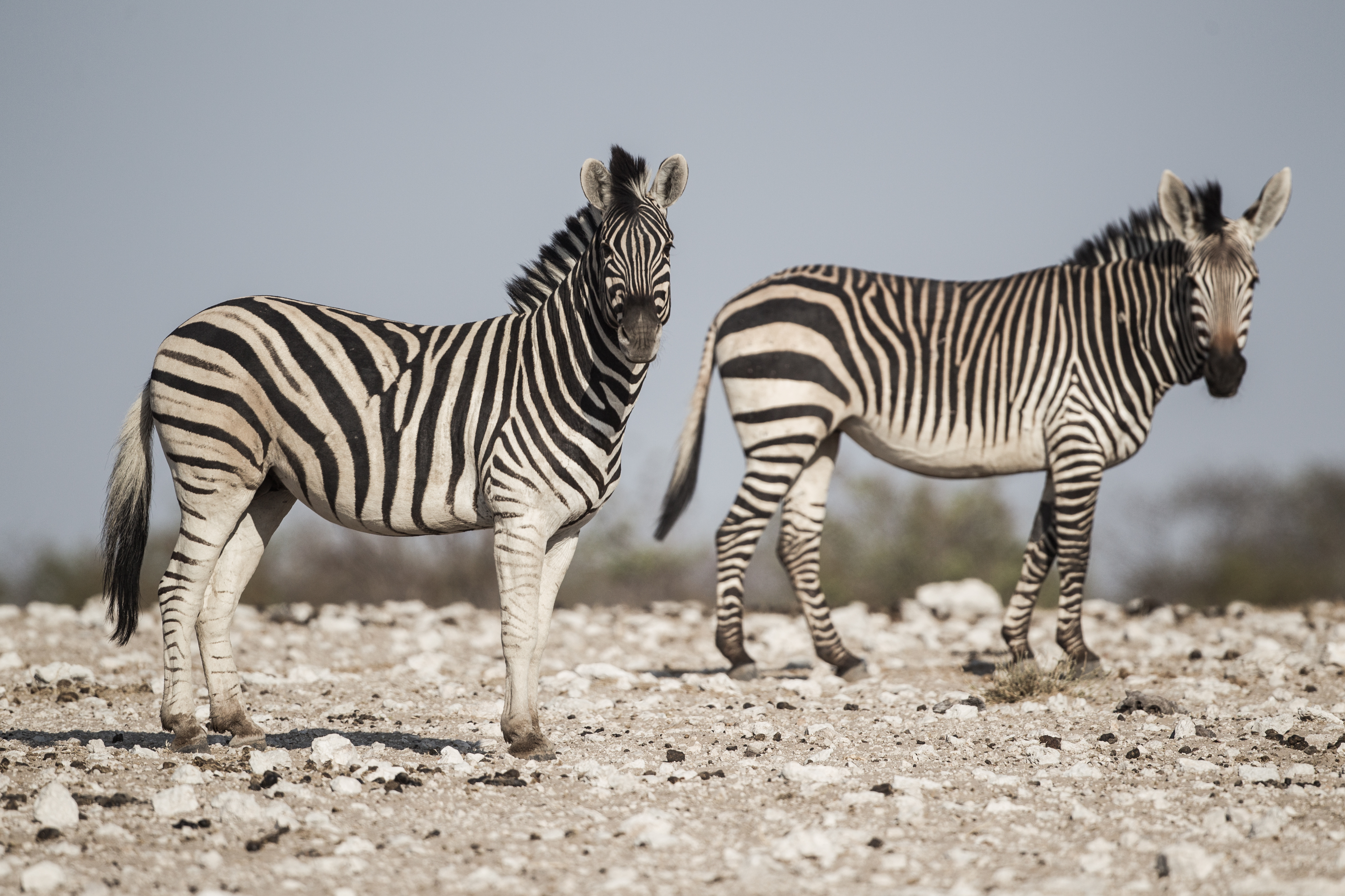 Burchell's plains zebra and Hartmann's mountain zebra in Etosha National Park, Namibia.